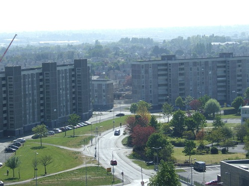 Ballymun